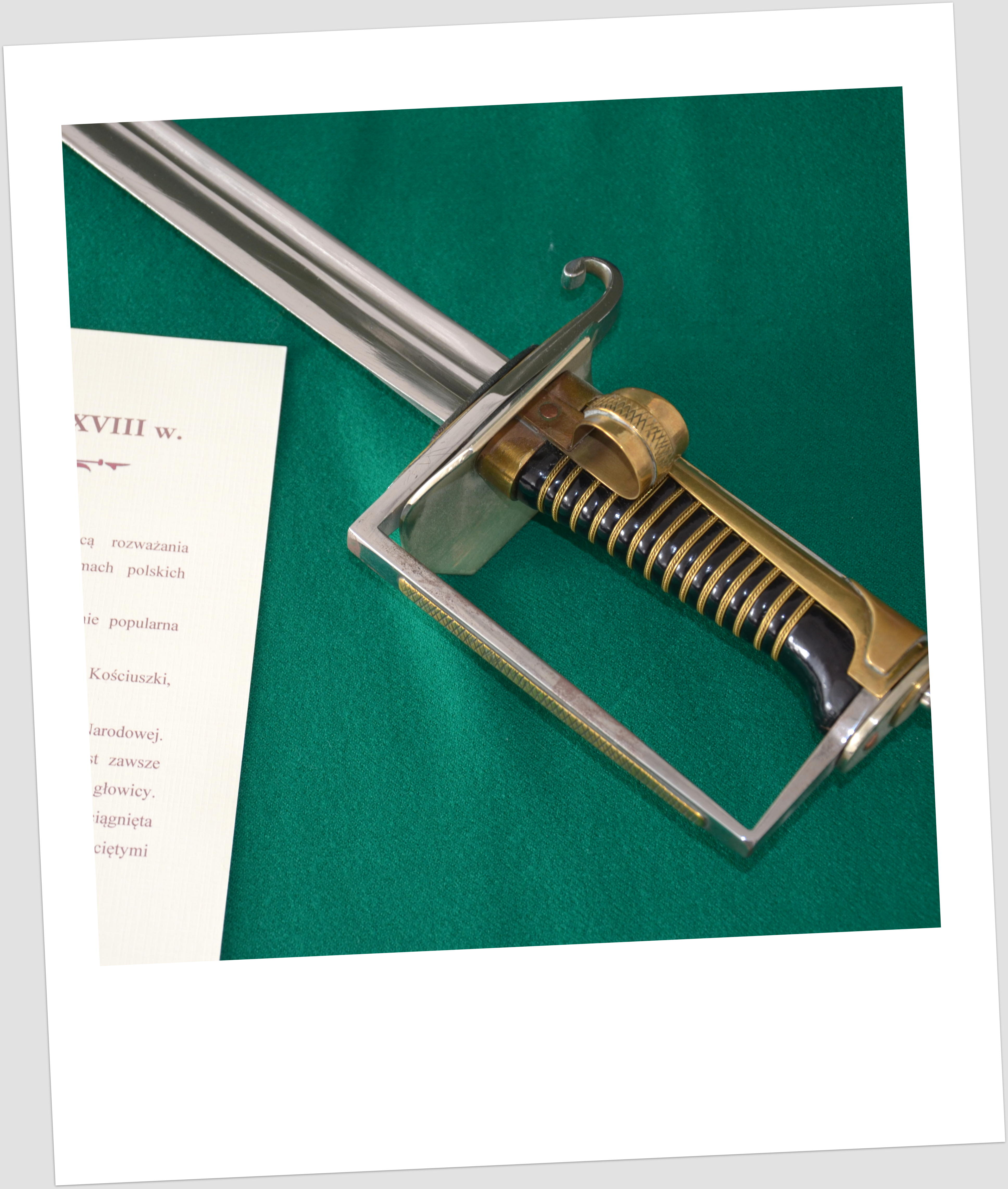 Polnischer Kavalleriesäbe Kosciuszkowska aus dem 18 Jh